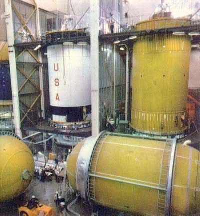 Saturn IB second stages, S-IVB, in Douglas tooling tower, Huntington Beach